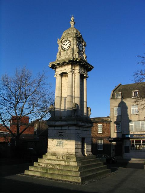 Photograph